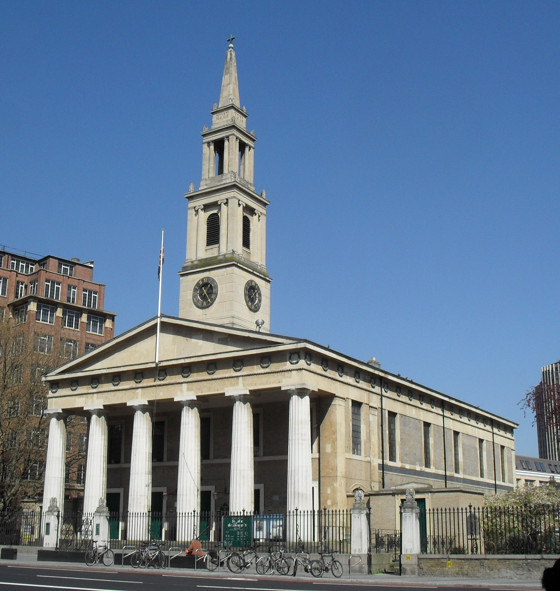 St John's Church, Waterloo Road, London SE1, England. A Commissioners' Church built by Francis Bedford in 1823–24. Listed at Grade II* by English Heritage (IoE Code 204772)